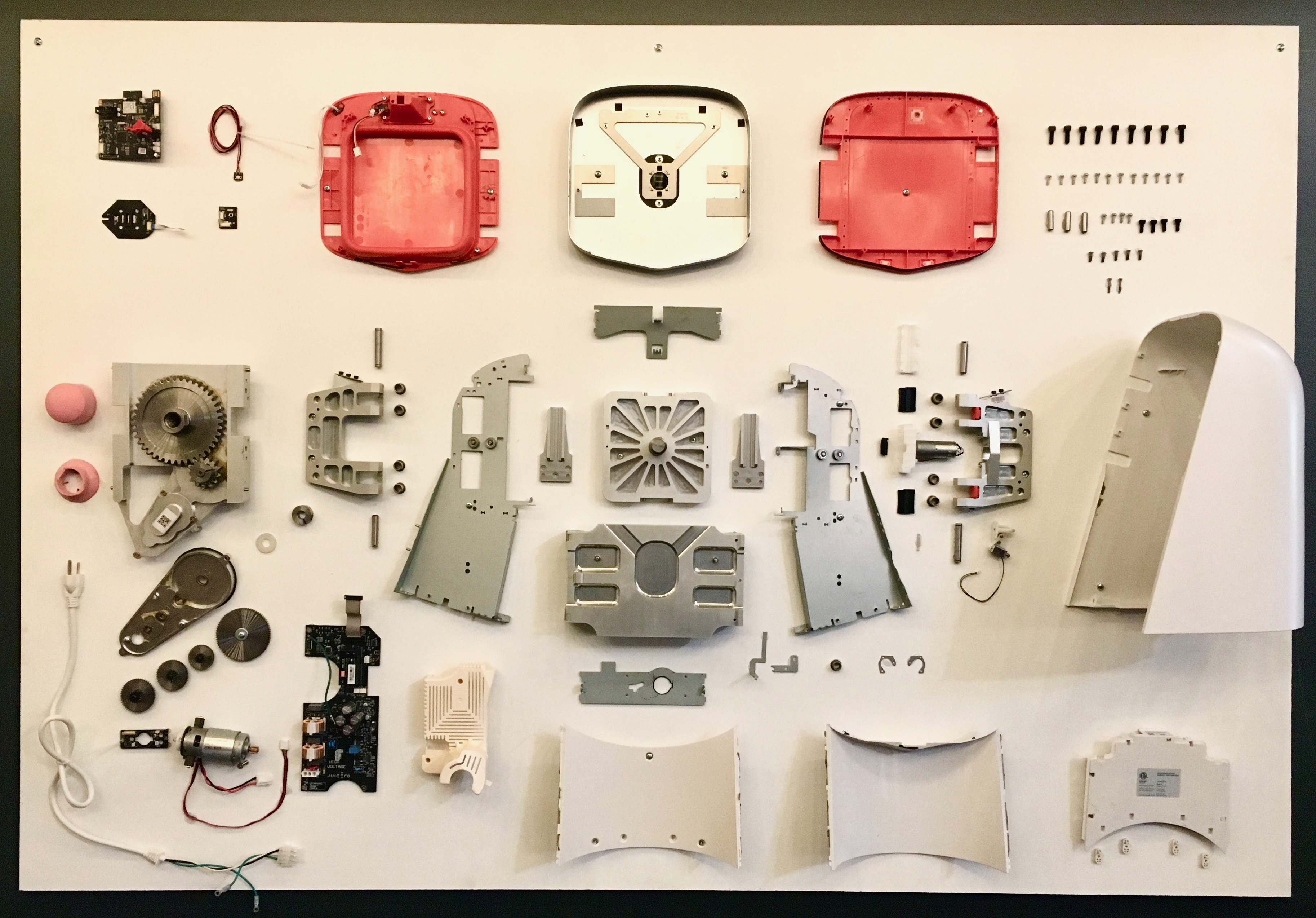 I was visiting Bolt’s cool new incubator digs, and felt especially drawn to the disassembled consumer electronics products splayed onto rectangular displays, like a vivisection of the consumer tech frontier. I’ll leave each unlabeled if you want to guess what they are... I'll put the answers at the bottom of the comments below,. It reminds me of the device disassembly class I led at my kids’ kindergarten. Old VCRs, digital cameras and HDDs are fantastic on the inside, with a strange hybrid of miniature electronics and moving parts. Here is an article I wrote for WIRED with photos that link to my flickr blog details on each disassembly. For the next project, we plan to collaborate. I have a full Apollo guidance computer (very rare and huge) and a Saturn V launch control computer to disassemble and document.... should be amazing inside.